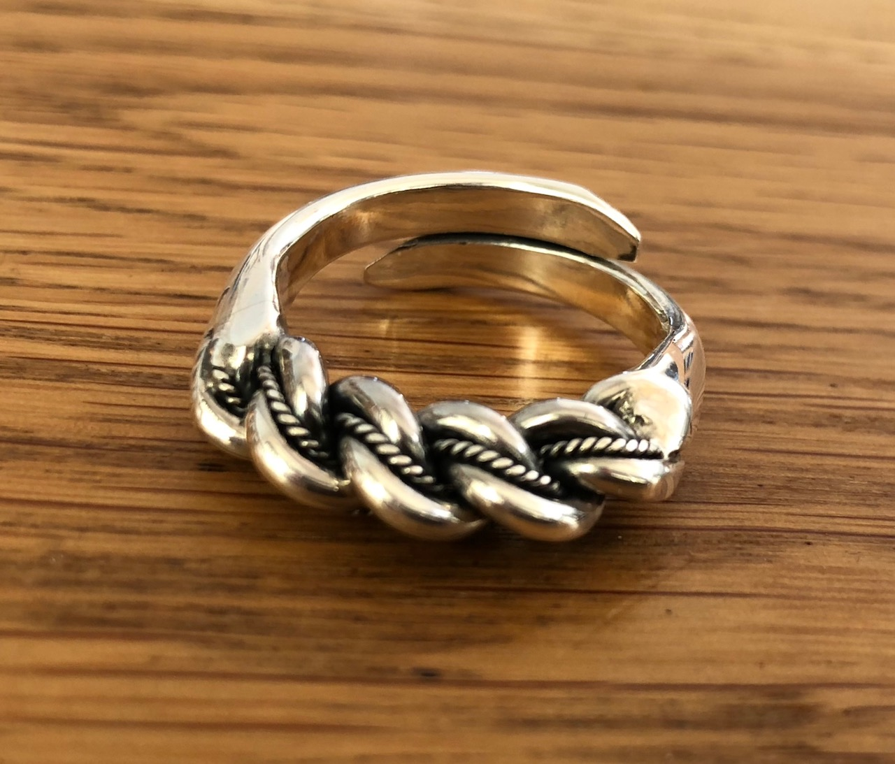 Nameja gredzens - ring of Namejs is an example of artistry and symbolism in Latvian jewelry: Three separate bands of silver twist around each other forming a braid. A thread-like chain wraps them together making them one. Four separate elements come together in a single shape. No two rings are exactly alike; each one is handcrafted. But the form never changes, always the three wrapped by the one.